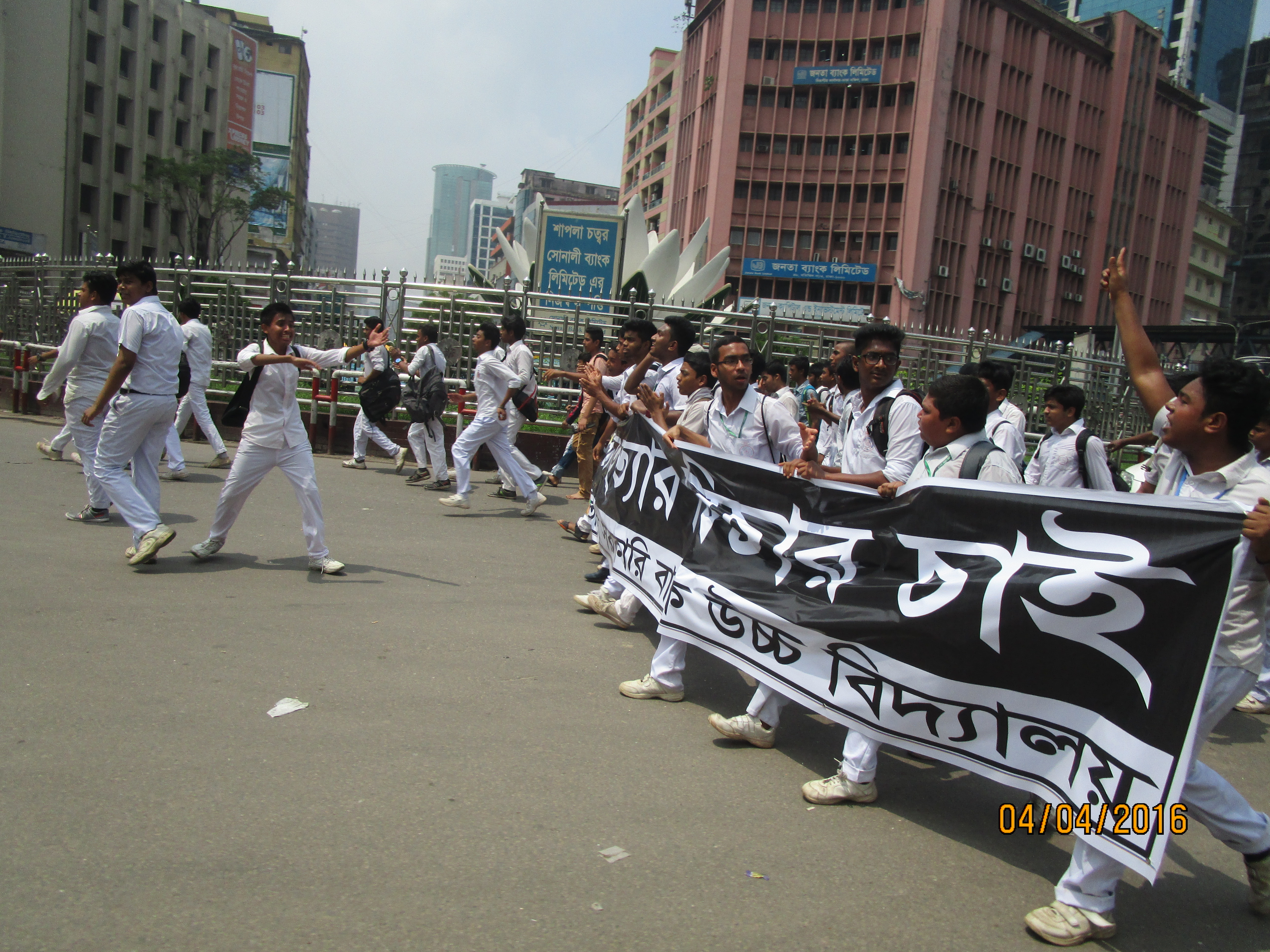 Motijhil Govt Boys School Protest Rally